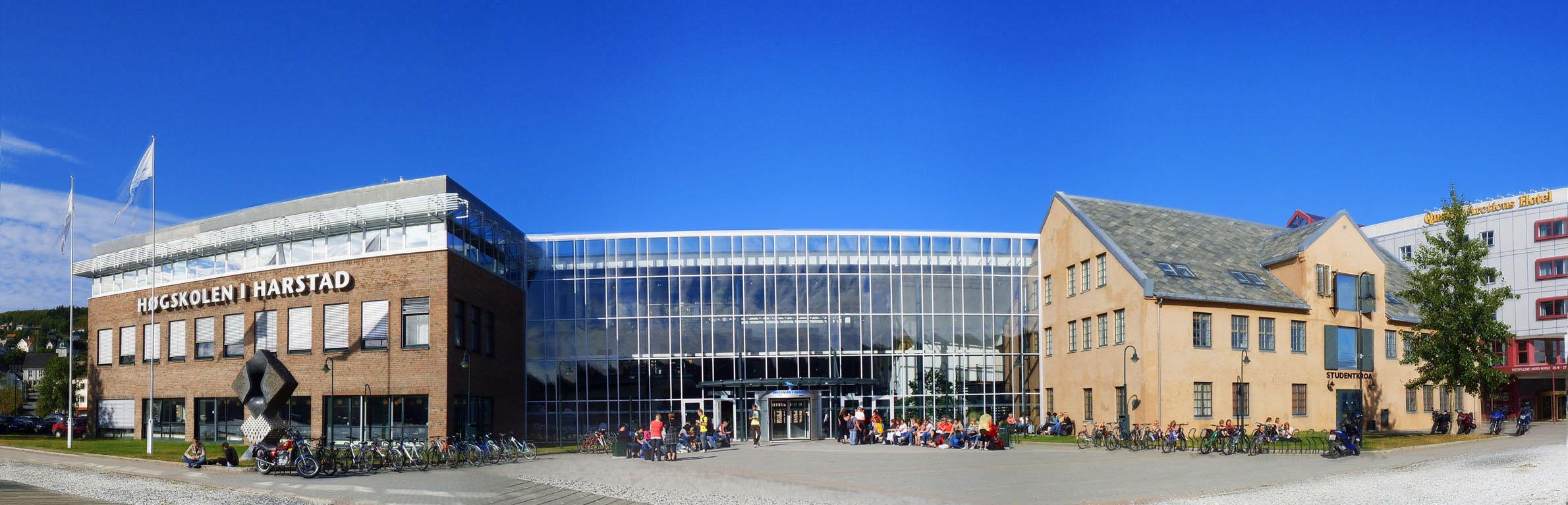 Harstad University College (Hogskolen i Harstad) panoramic picture. [Harstad, Norway]